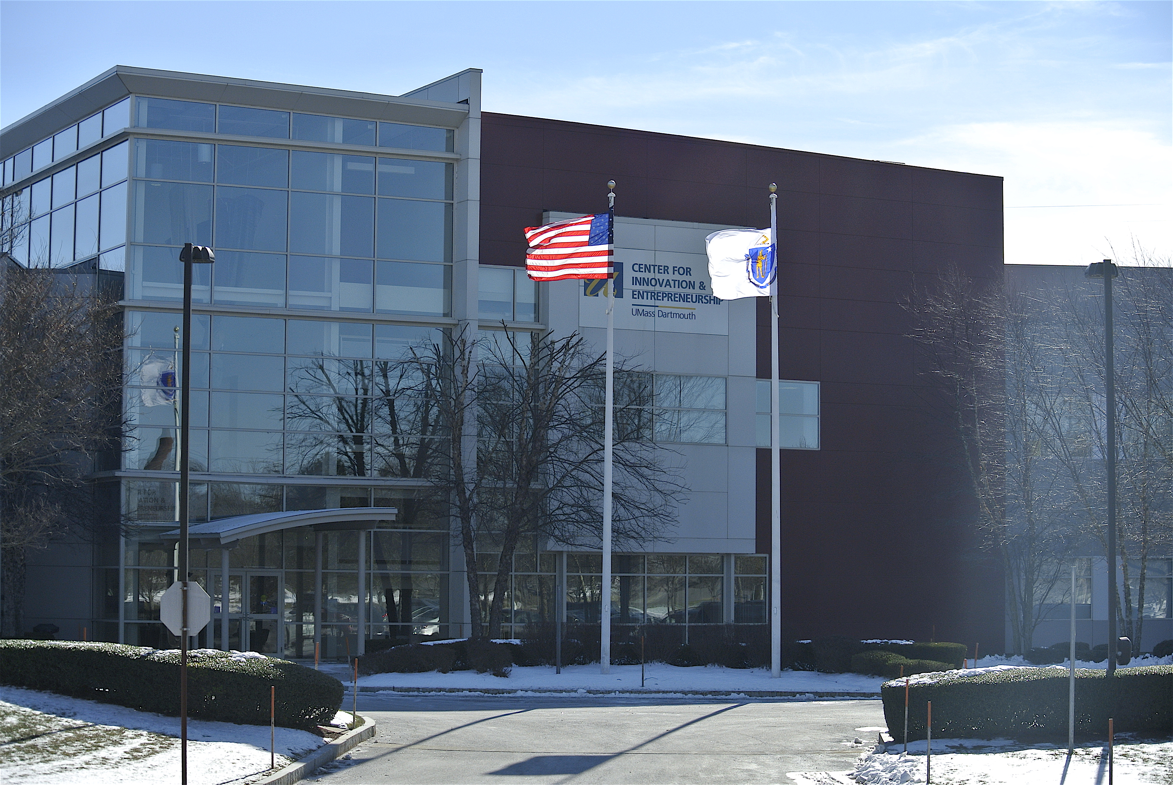 Center for Innovation and Entrepreneurship in Fall River.